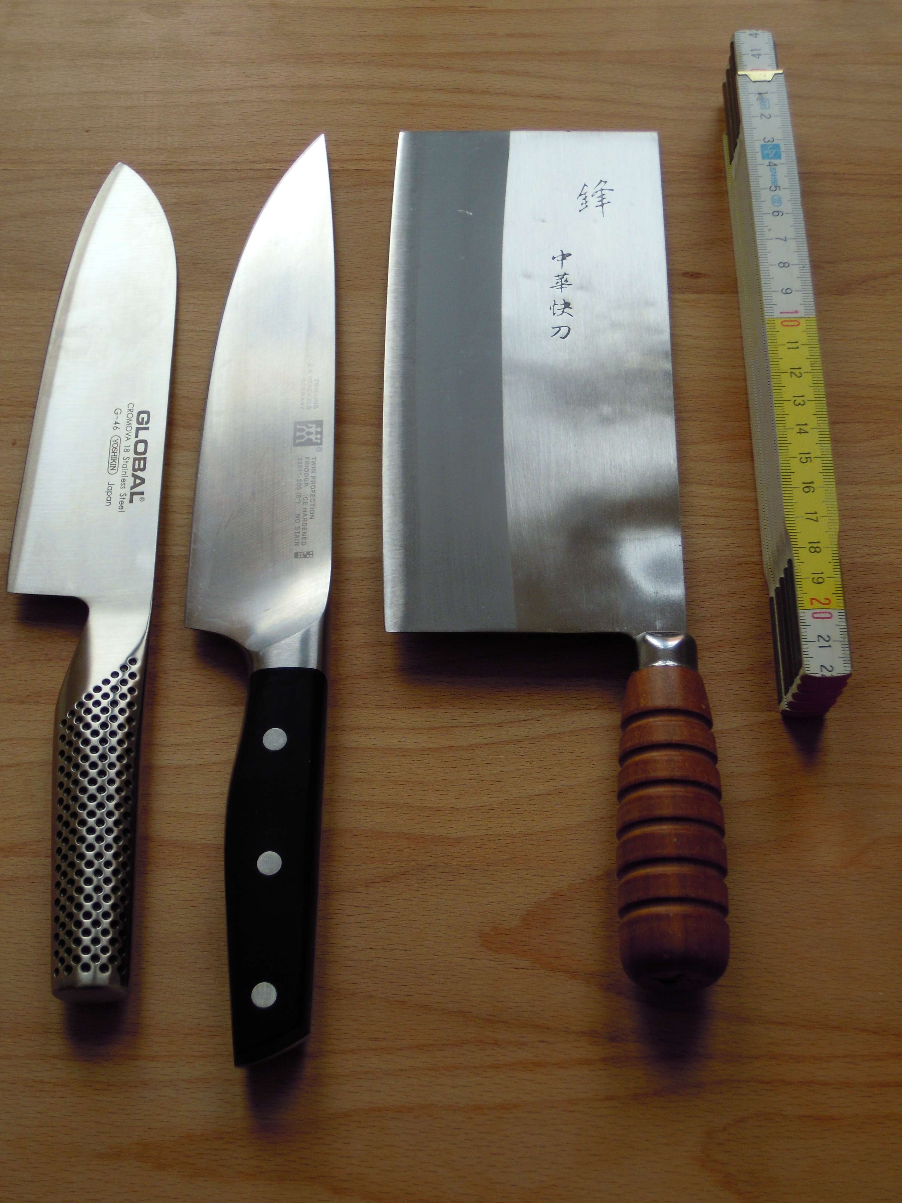 Three chef knives. A Japanese santoku (Global Yoshikin G-46), a German standard Kochmesser (Zwilling Profection) and a typical Chinese chef's knife